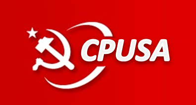 alternate logo for the CPUSA.